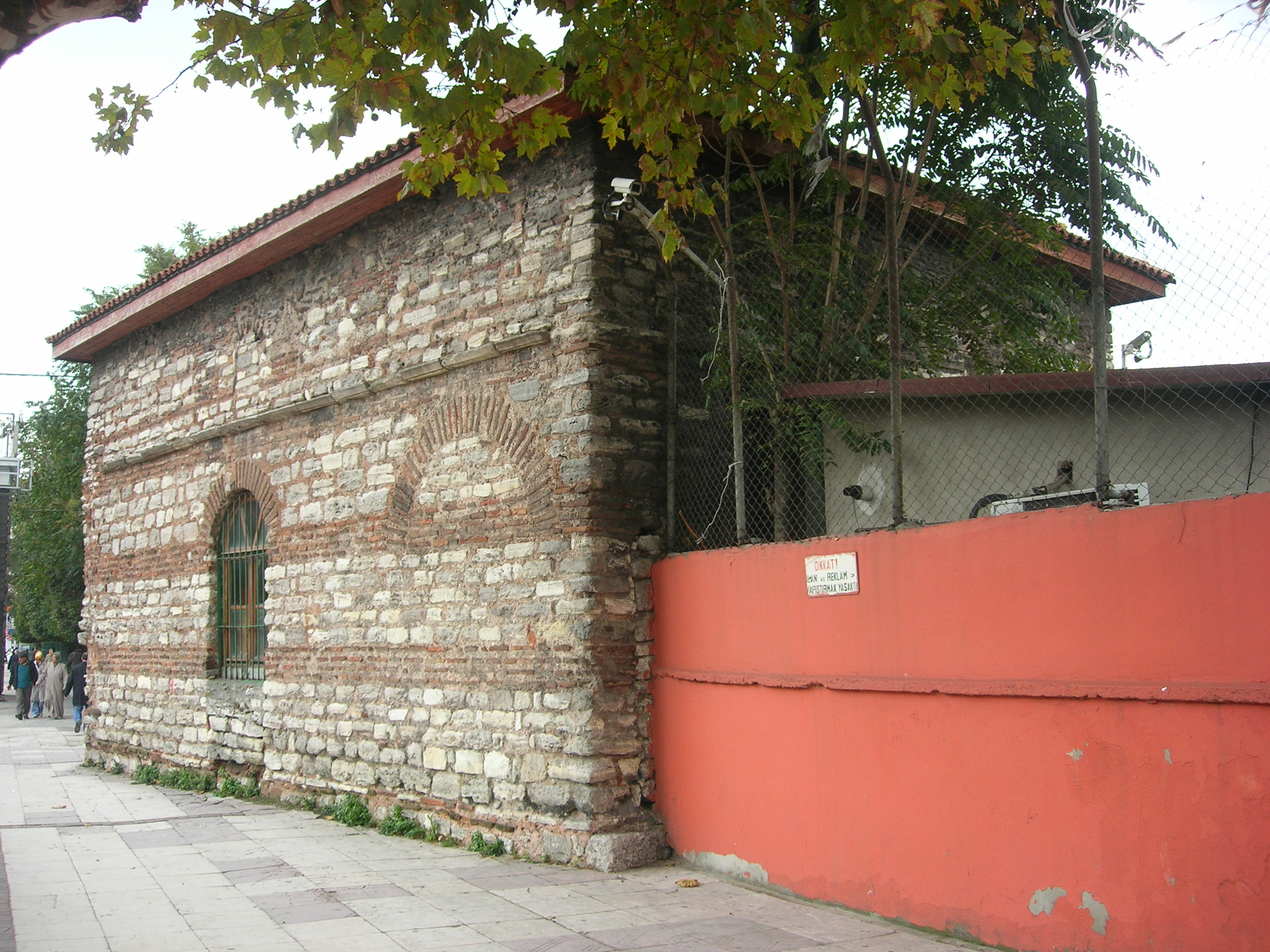 The north side of the Manastir Mosque in Istanbul